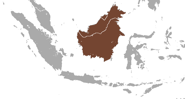 Collared Mongoose (Herpestes semitorquatus) range